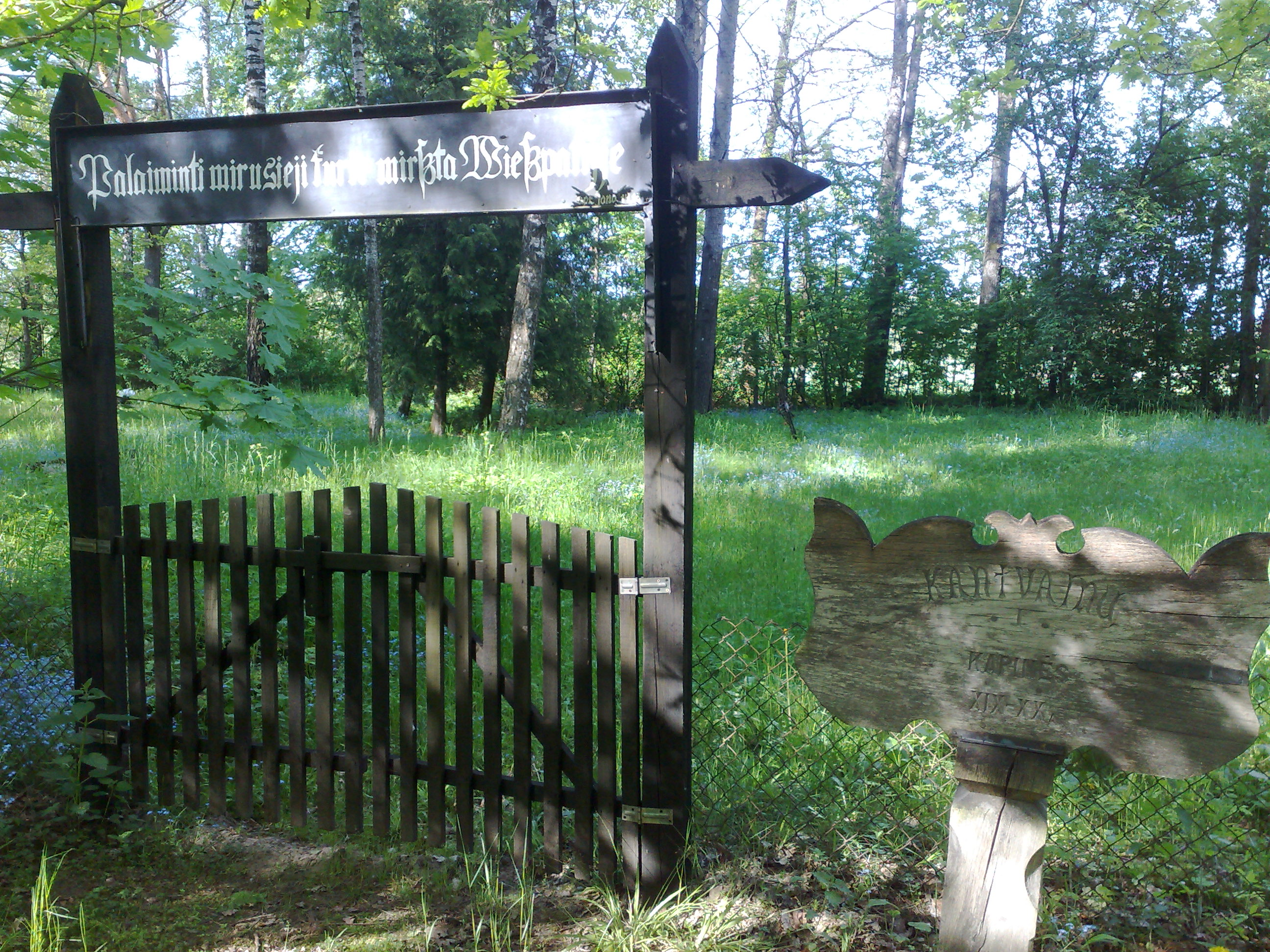 Kontvainiu kaimo kapines